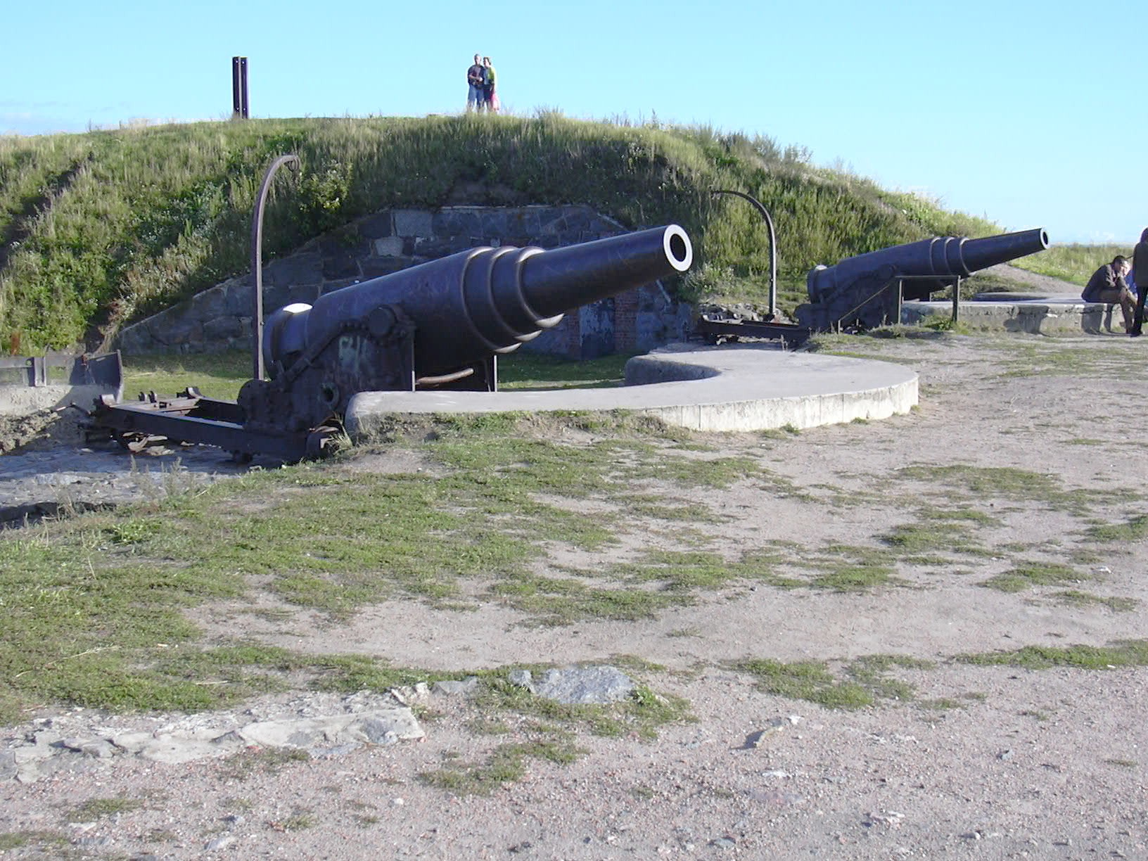 Cannons on Suomenlinna